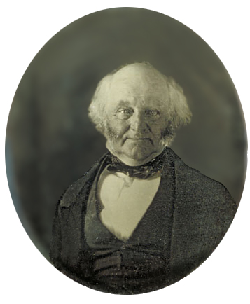 Daguerreotype of U. S. President Martin Van Buren. Image courtesy of the Harvard University Library. extensively retouched to remove damages